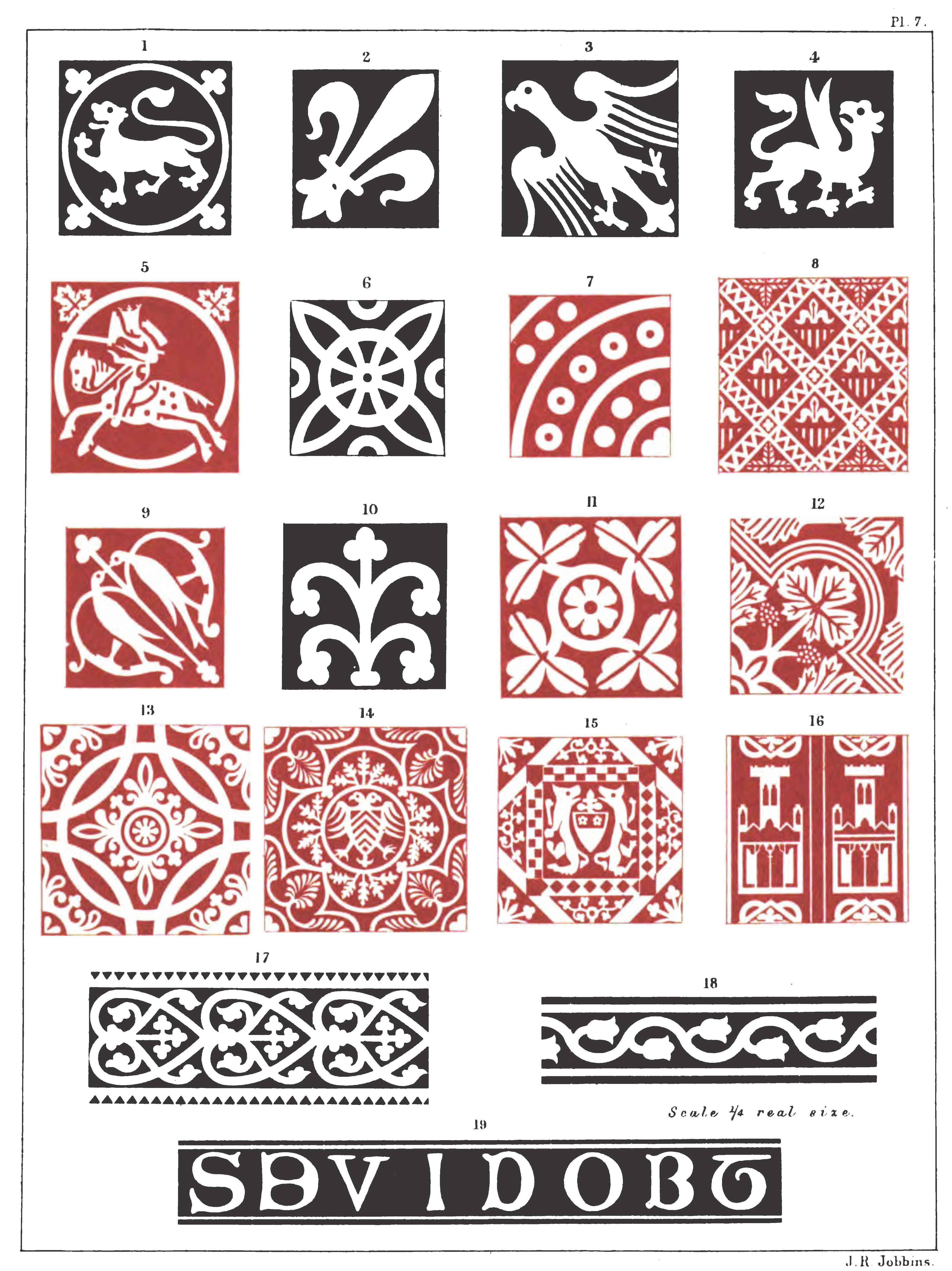 13th century encaustic polychrome tiles from the floor of the church of Netley Abbey. The heraldic symbols include the badges of England, France, Castile, the Holy Roman Empire and many important noble familes. These tiles were excavated in 1860.